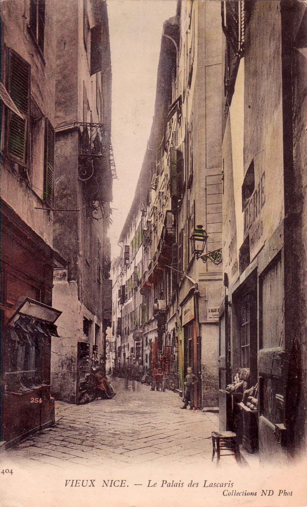 Nice. Palais Lascaris. Postcard, c. 1910. Publisher: Neurdein Frères. Paris.